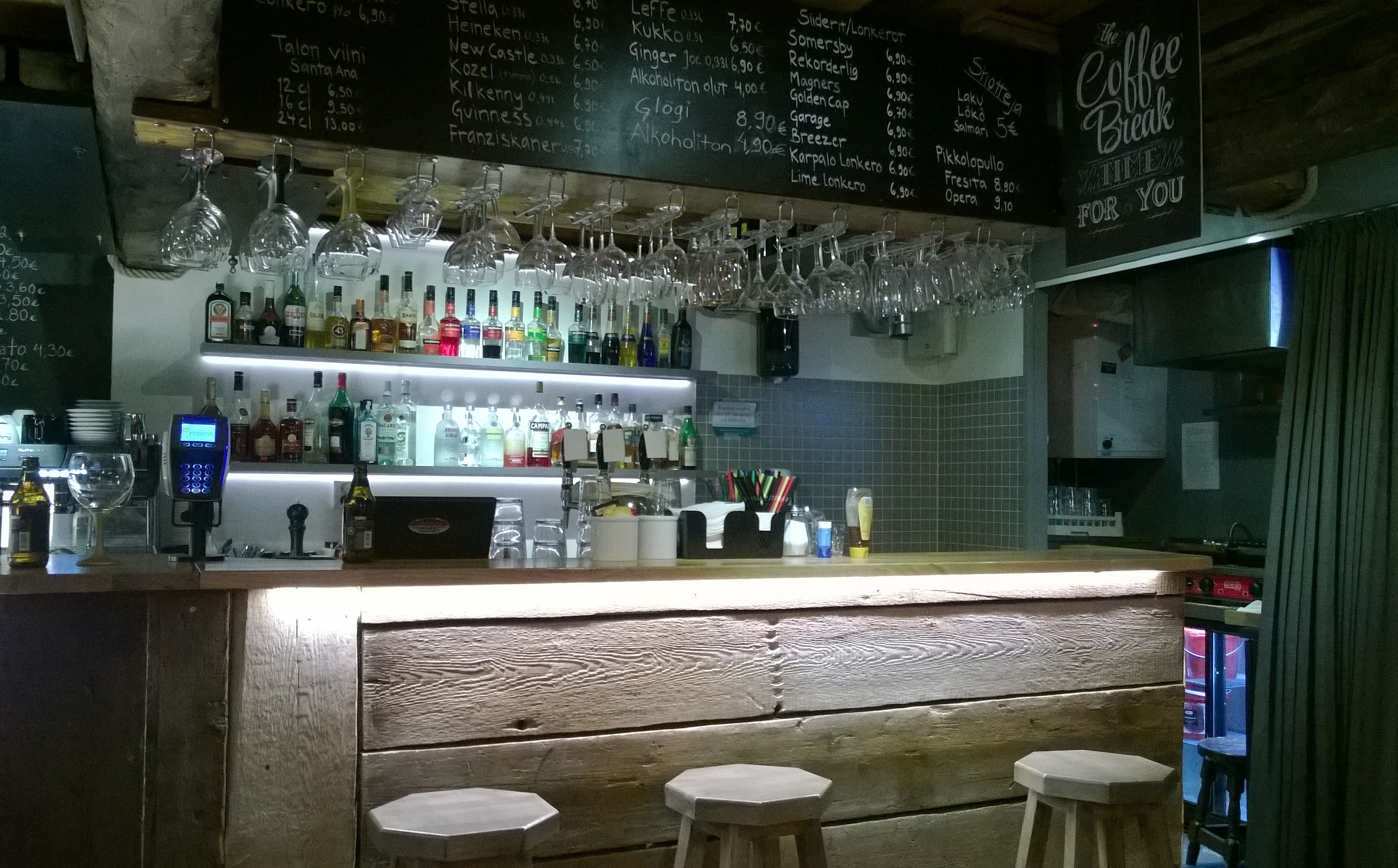 Bar counter of the restaurant Tervasoihtu, which is located at the Oulu Market Square.